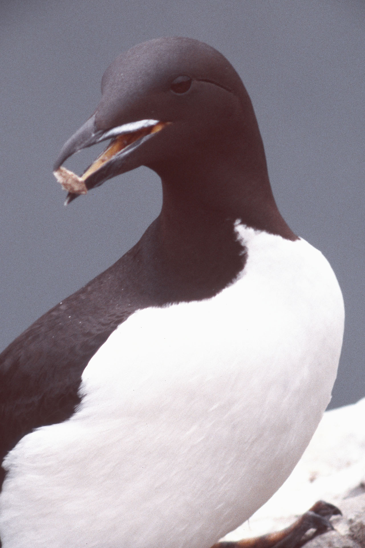 Uria lomvia, Brunnich´s Guillemot, at bird cliff of Stappen, southern Bear Island (Bjoernoeya), Barentsea, Svalbard.